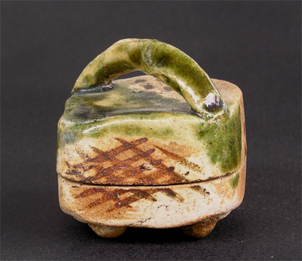 Incense box - kogo. Oribe 4,5 cm.